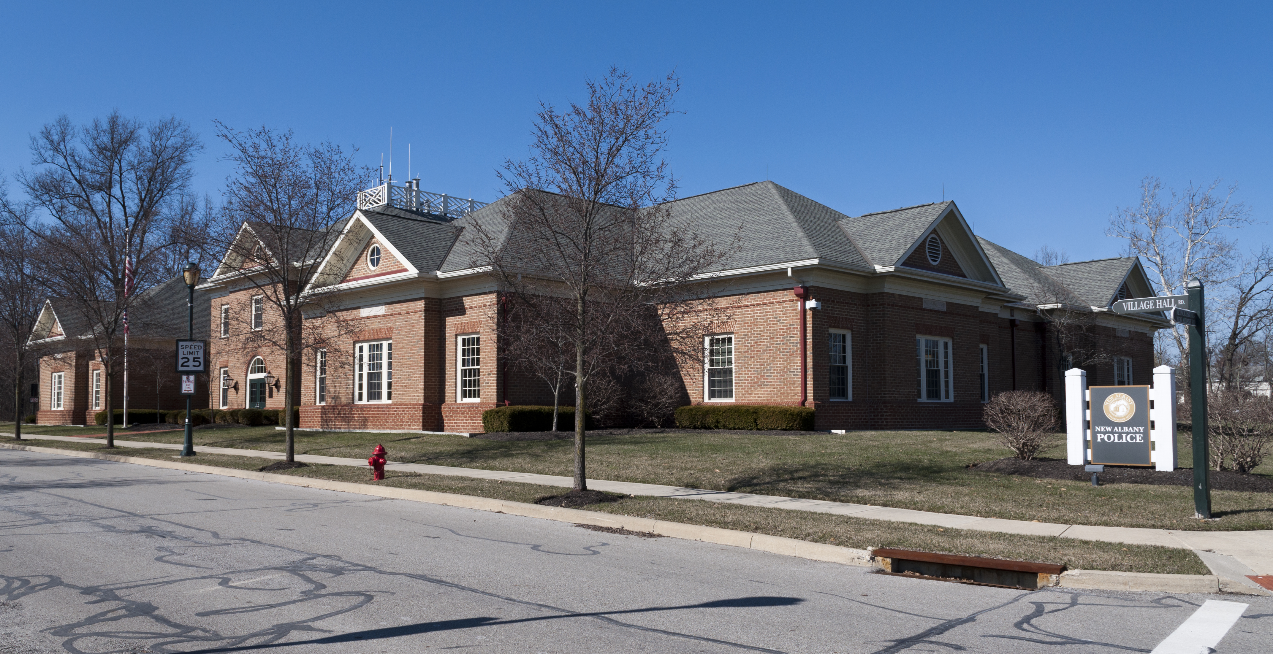 New Albany Police Department Headquarters. Photographed in March, 2018 from the southeast.